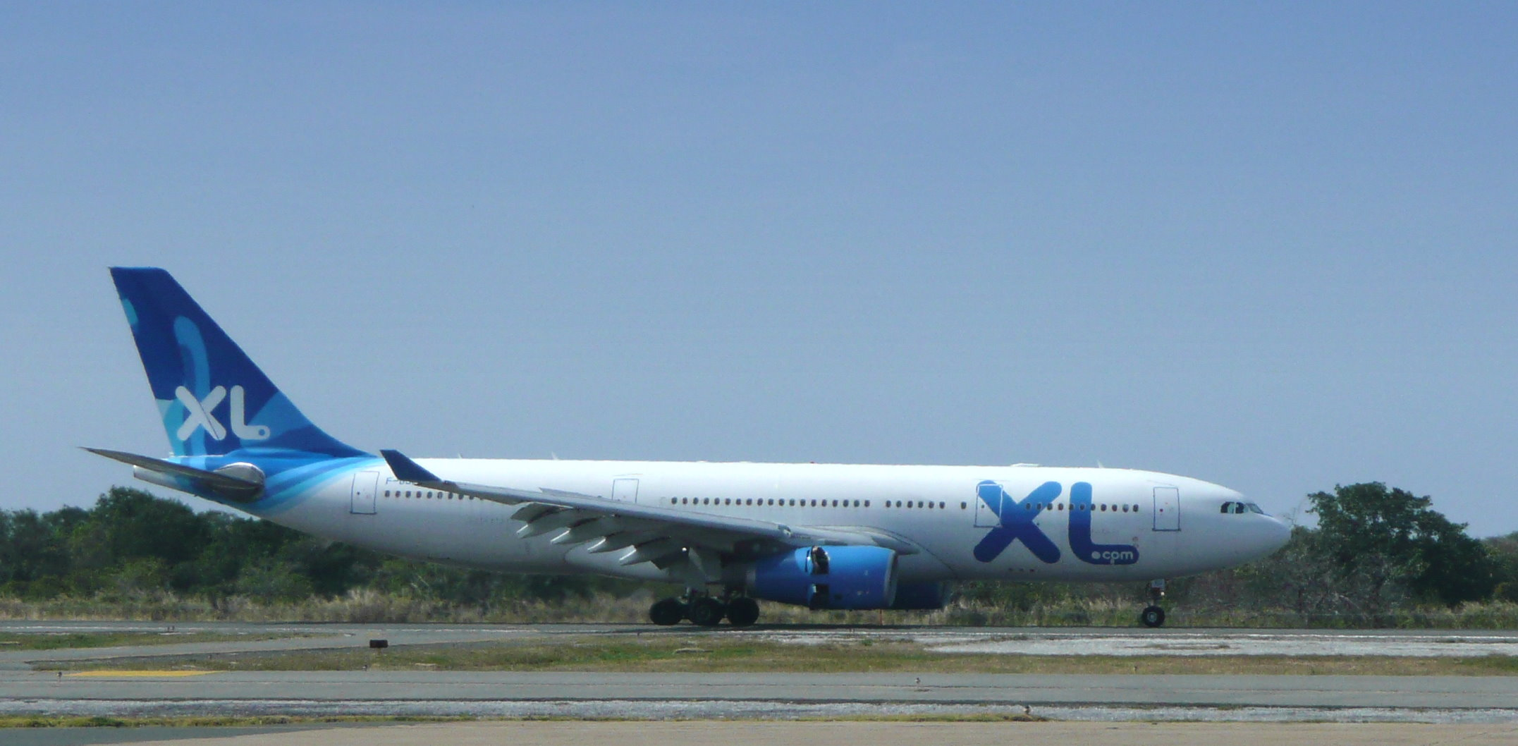 XL Airways France Airbus A330-200 landing at Punta Cana International Airport, Dominican Republic.